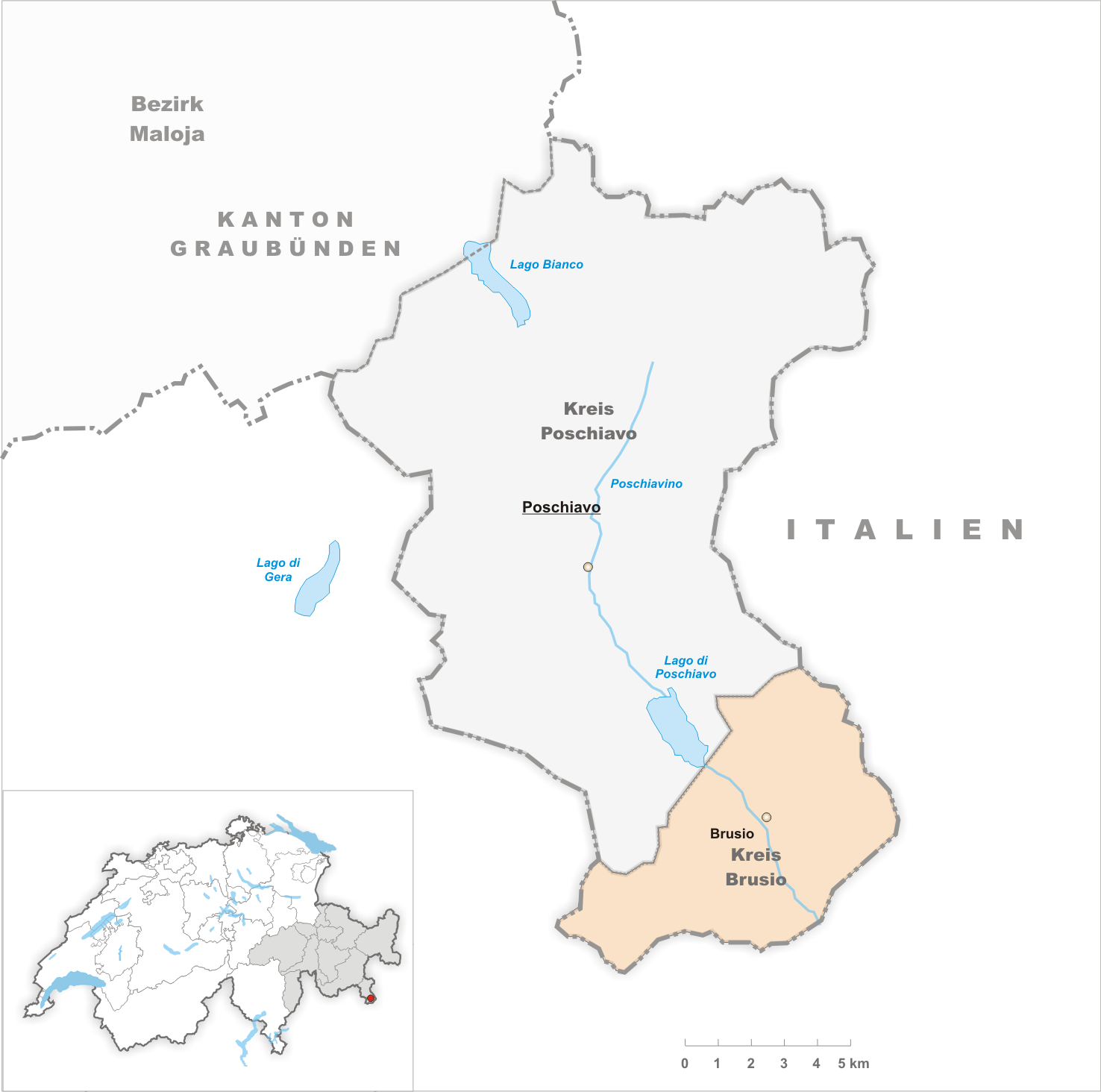 Municipality Brusio